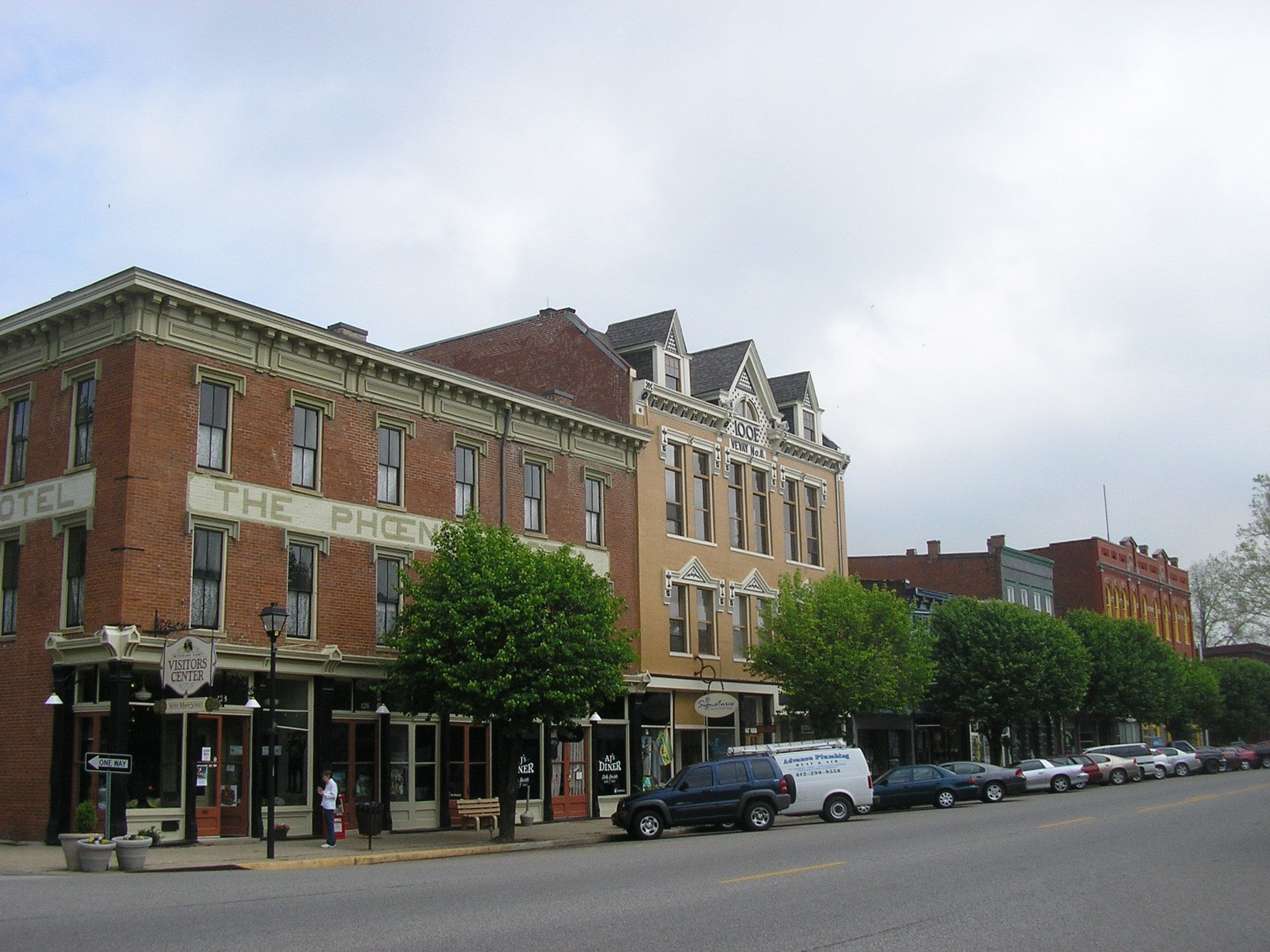 Main Street in Vevay, Indiana, USA